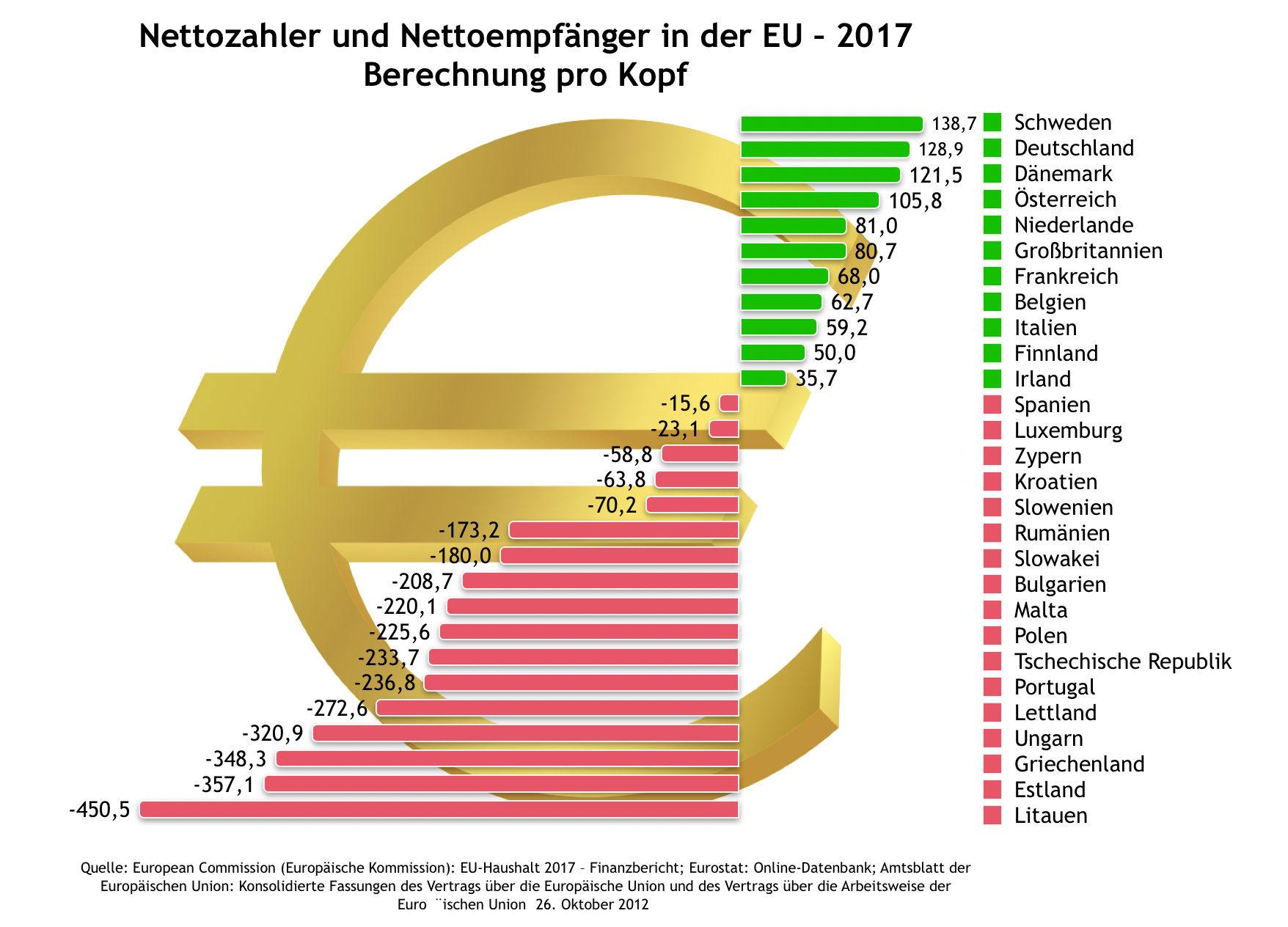 Net payer and net payee in the European Community (per capita, 2017)